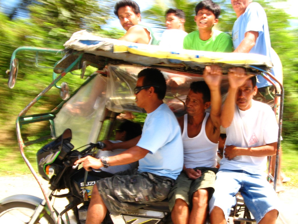 beat this: 9 passengers and a driver.. philippine tricycle, prince of the road.. tagkawayan, quezon.. Explored Jan. 30, 2008: #489